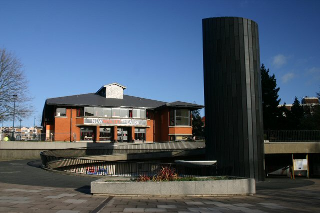 New Wolsey Theatre, Ipswich The Theatre was re-opened (and re-named) in February 2001 after being closed eighteen months. The entrance to the underground spiral car park is in the foreground.